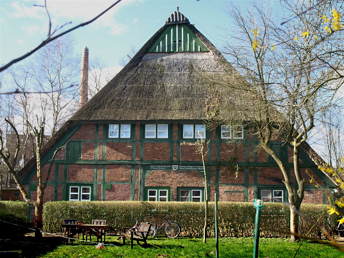 Tornesch, farewell house Siemsen - Hamburger Str. 10 - formerly cultural monument - photo 2008 - The reed covered “Fachhallenhaus” (Northern-German type of farmhouse) was built in 1810. Although it was registered as a cultural monument, it was canceled in 2013. It was the farewell house (house of the old farmer) of the older Jürgen Siemsen, one of the two farewell houses of the Tornescher Hof. The following inscription was preserved on the house beam above the bricked-up barn door:- Wer Gott vertrut hat wol gebaut – im Himmel und auf Erden – Jürgen Siemsen – Anna Catrina Siemsen – Anno 1810 – den 2. Juni- Parts of the interior (paneled wall with alcove) are exhibited in the museum Mölln-Hof. Object location53° 41′ 47.42″ N, 9° 43′ 01.63″ E